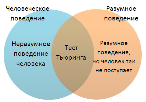 Human behavior and Intelligent behavior diagram